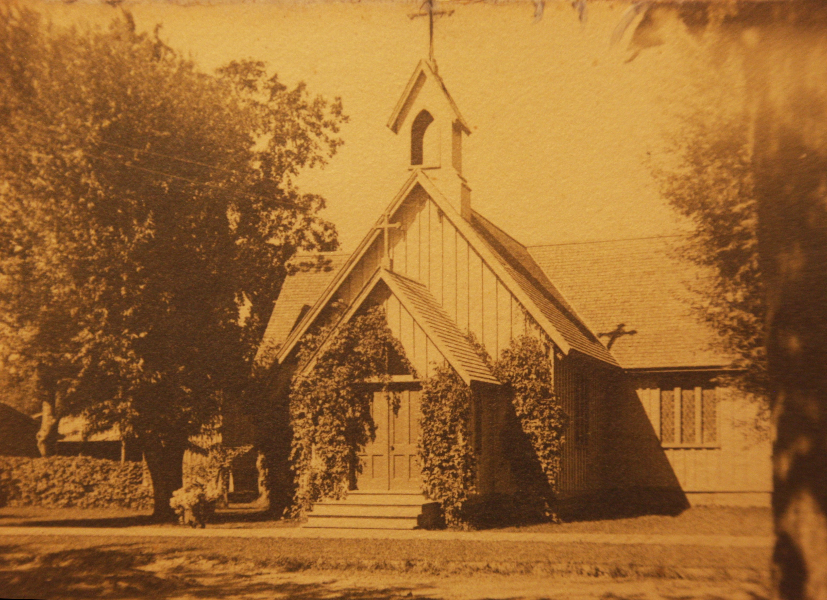 Photograph of an 1890s postcard of St. John's Episcopal Church built in 1863 in Sparta, Monroe County, Wisconsin, United States